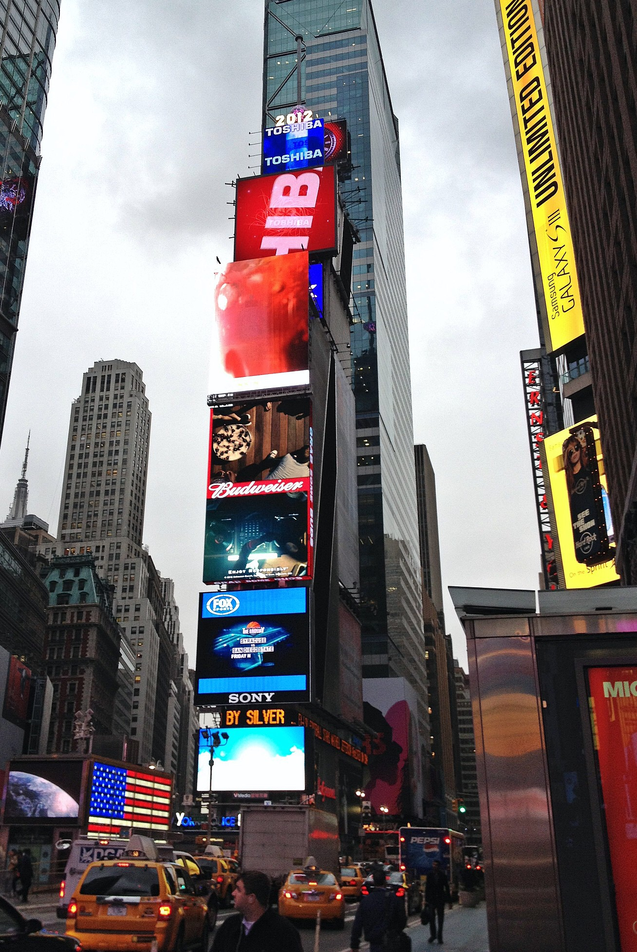 Photo of Times Square side of building known as One Times Square